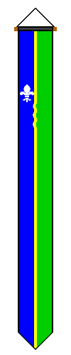 Wimpel van flevoland- Pennant of the Dutch province of flevoland - own work -- Quistnix 10:45, 11 November 2005 (UTC)